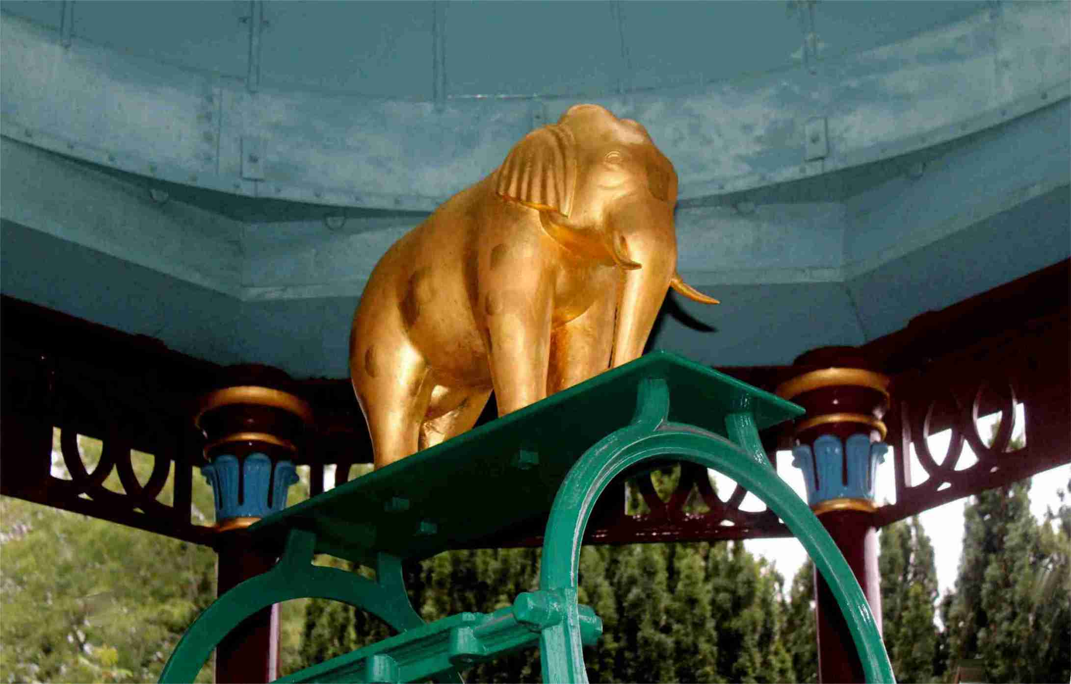 Maharajahs Well elephant inside